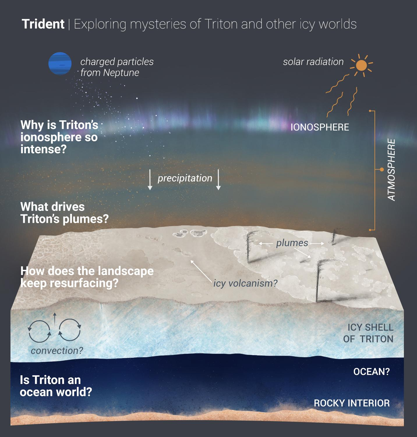 PIA23874: Trident: Exploring the Mysteries of Triton A new mission competing for selection under NASA's Discovery Program would explore Neptune's largest moon, Triton, which is potentially an ocean world with liquid water under its icy crust. Trident aims to answer the questions outlined in the graphic illustration above. The questions fall under Trident's three main goals. The first goal is to explore the factors that lead to a solar system body having the necessary ingredients — including water — to be habitable. A second goal is to explore vast, unseen lands. Most of what we know of the moon came from Voyager 2 data. But we've only seen 40% of the moon's surface; Trident would map most of the remainder. Trident's third major goal: to understand how Triton's surface keeps renewing itself. The surface is remarkably young, geologically speaking (possibly only 10 million years old in a 4.6-billion-year-old solar system) and has almost no visible craters. The Trident team is one of four developing concept studies for new missions. Up to two will be selected by summer 2021 to become a full-fledged mission and will launch later in the decade.